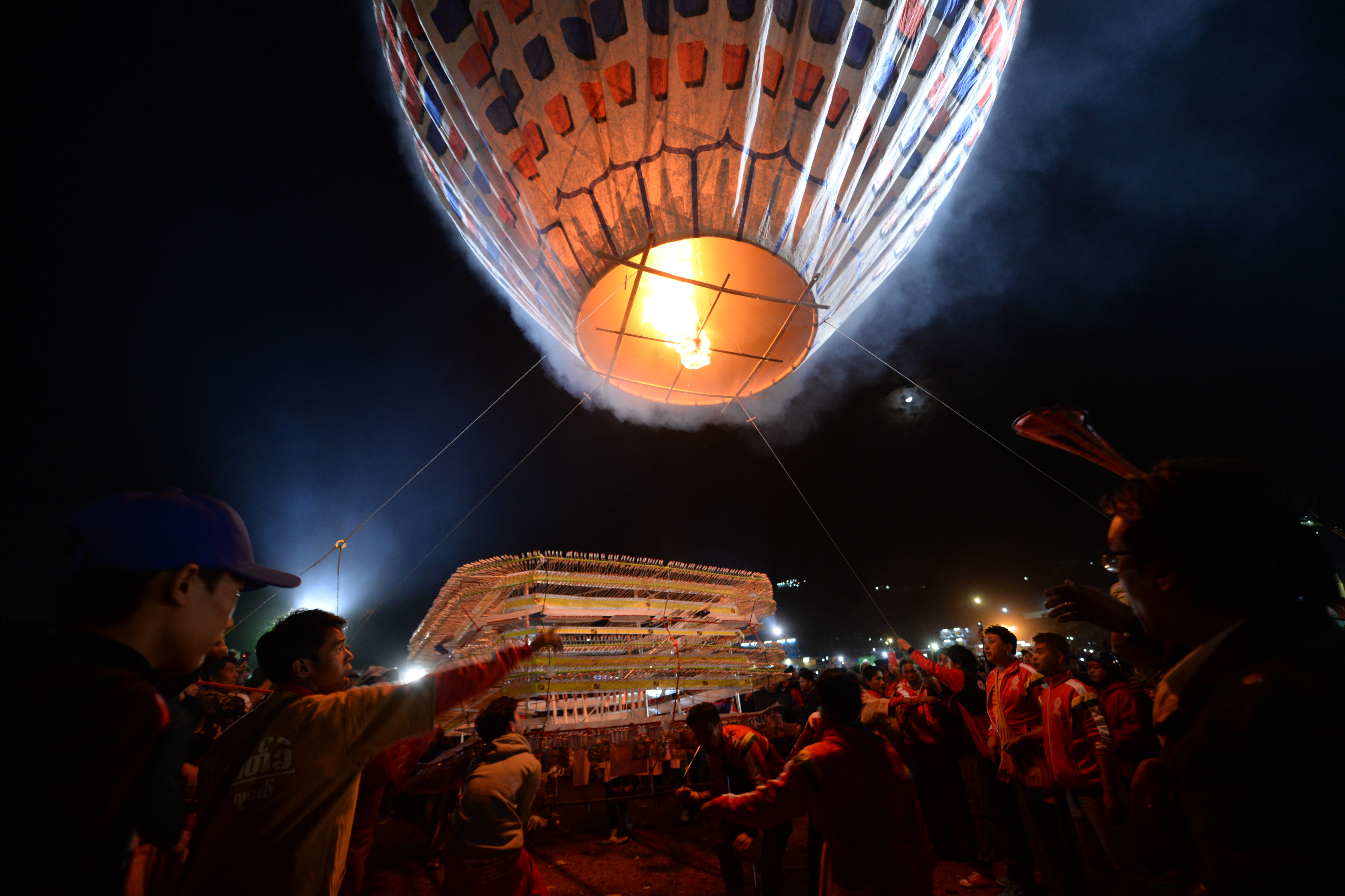 Fireworks being attached to a Balloon as part of the fire balloon competition during Tazaungdaing Festival in Taunggyi, October 2017